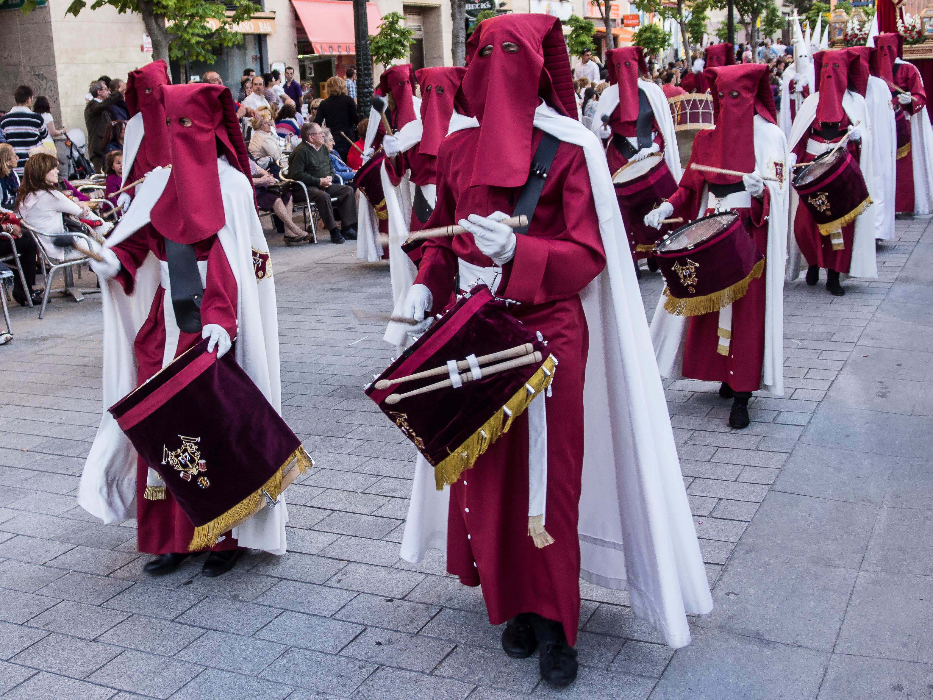 OLYMPUS DIGITAL CAMERA This is a photography of a Folklore festival in Spain (Wikidata id Q9075892).